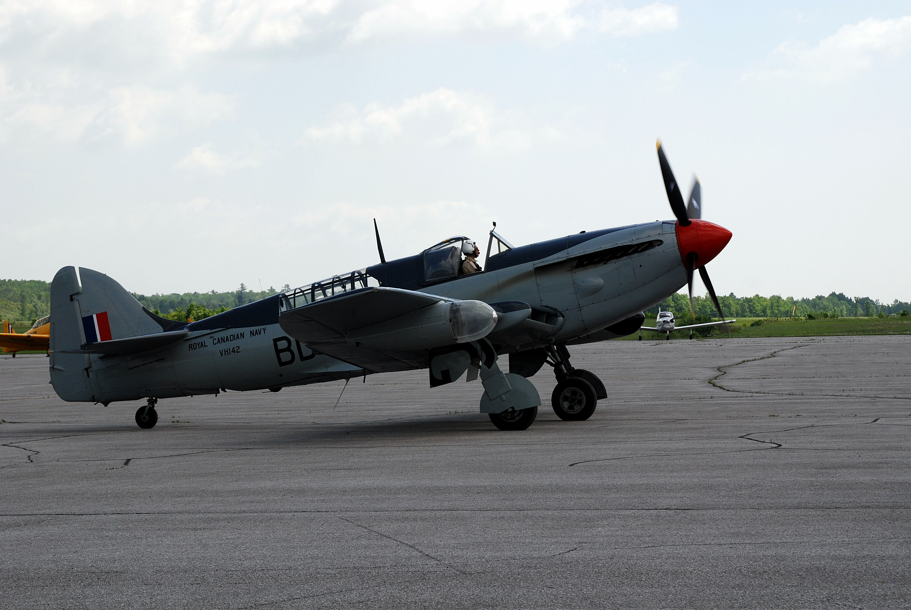 Canadian Warplane Heritage Museum's beautiful Fairey Firefly AS Mk. 6 makes an appearance at Vintage Wings of Canada in Gatienau Quebec.